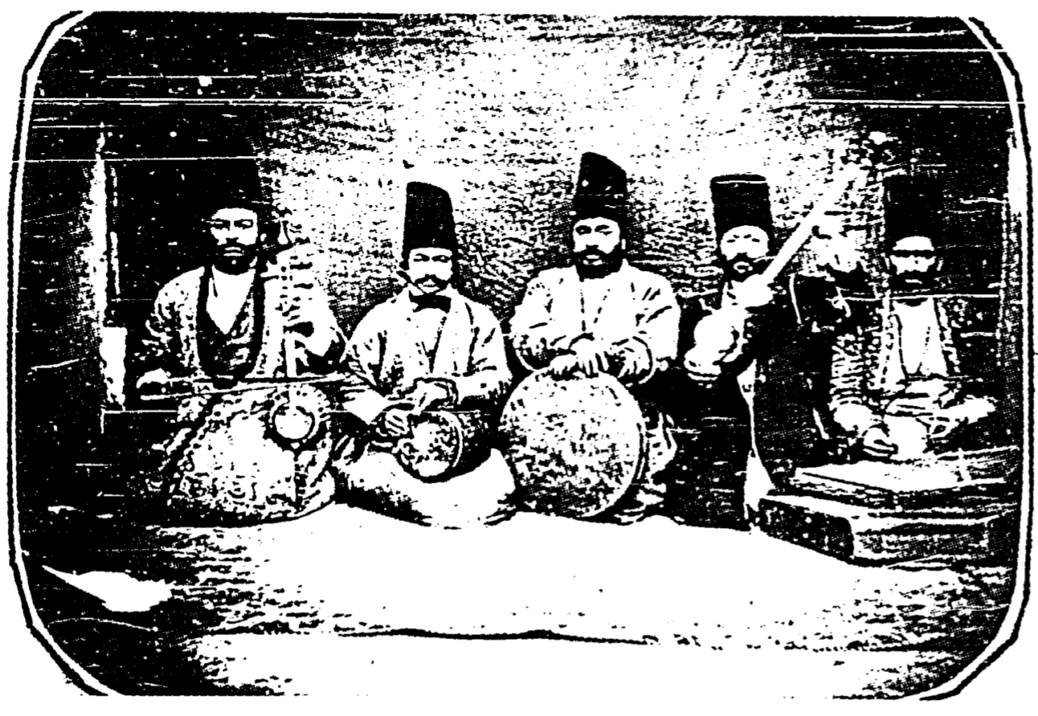 Motreb's (musicians) of Court of the King of Iran